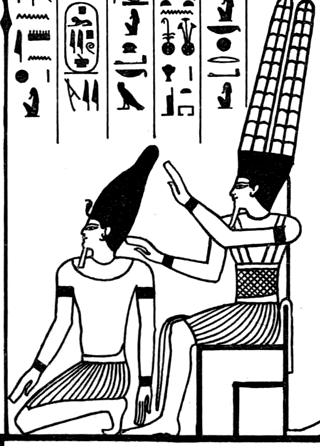 Drawing of a relief of Philippos III Arridaios in the Temple of Amun-Ra at Karnak; the god Amun (right) gives his blessing to Philippos (left, squatting). Reign of Philippos III, Macedonian dynasty of Egypt.